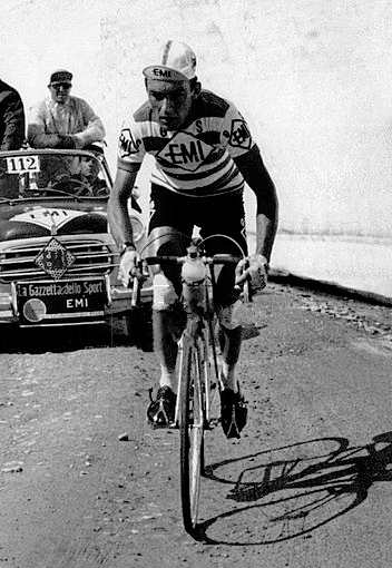 The professional cyclist Charly Gaul, native from Luxembourg, engages a climb in a hairpin turn during the Giro d'Italia, followed by the flagship vehicle; the sportsman recovered the Pink jersey and won the 42nd edition of the Giro with a breakaway on the Mount Piccolo San Bernardo. Italy, 1959